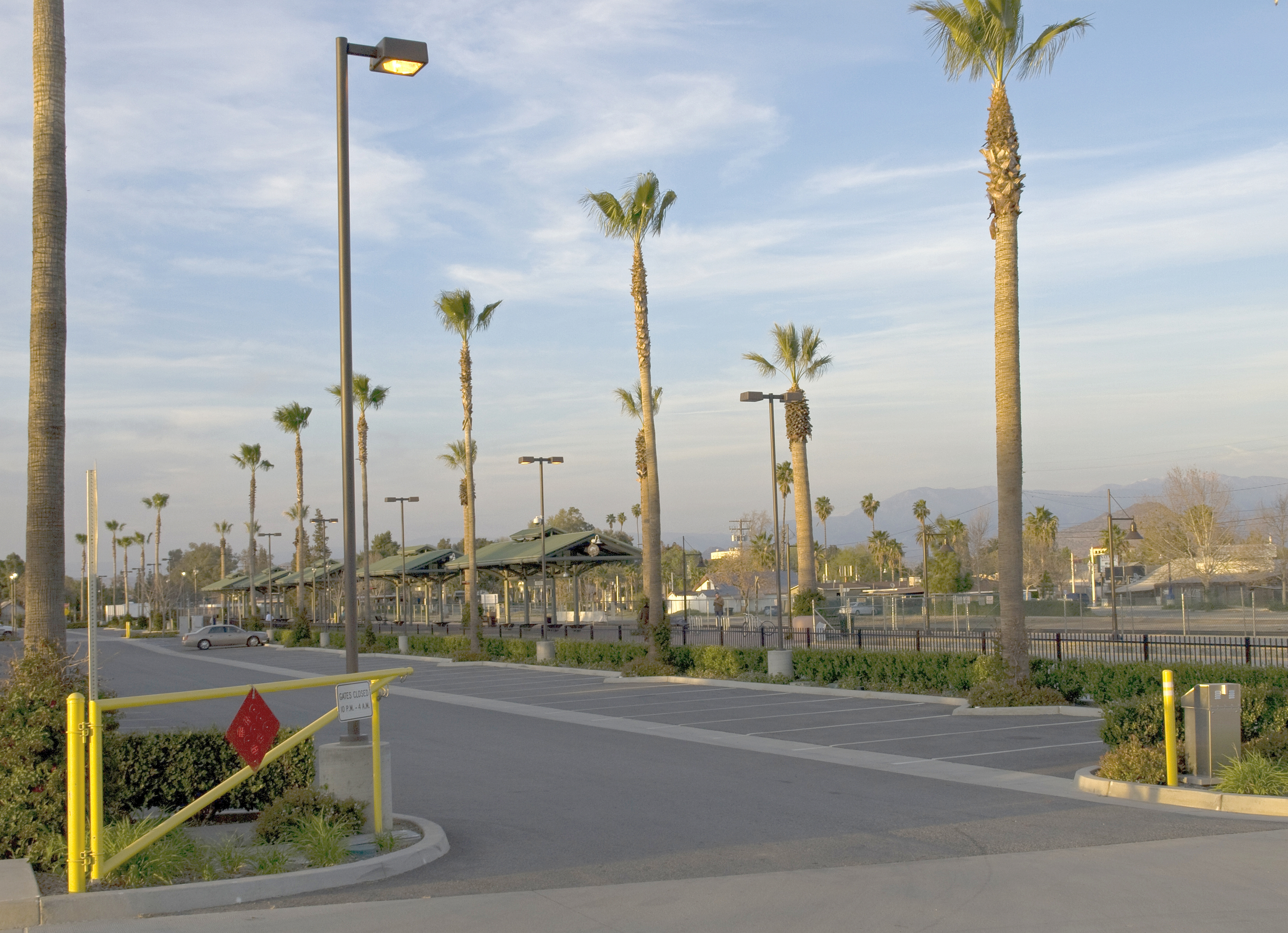 Former railway station in Perris, California, now Perris Transit Center